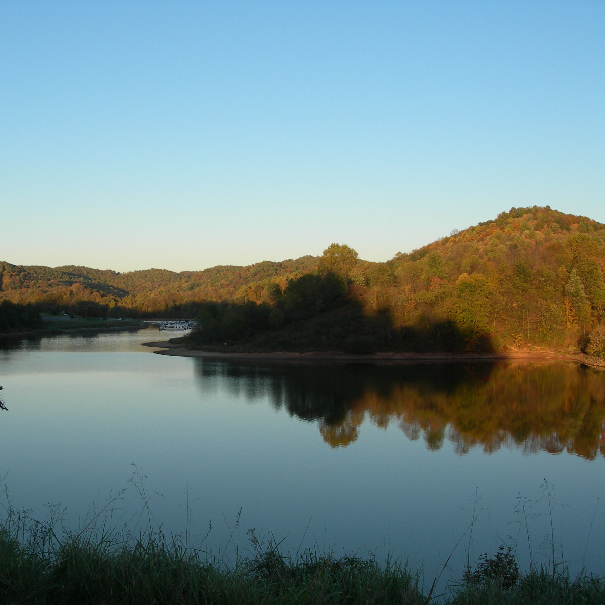 Stonewall Jackson Lake, near Weston, West Virginia,in the fall of 2006, photo recorded by WVhybrid.